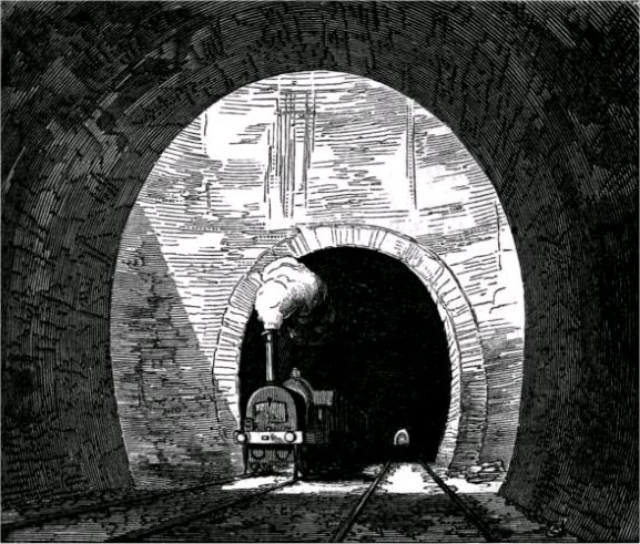 Pencil drawing of an air shaft in the Kilsby tunnel.